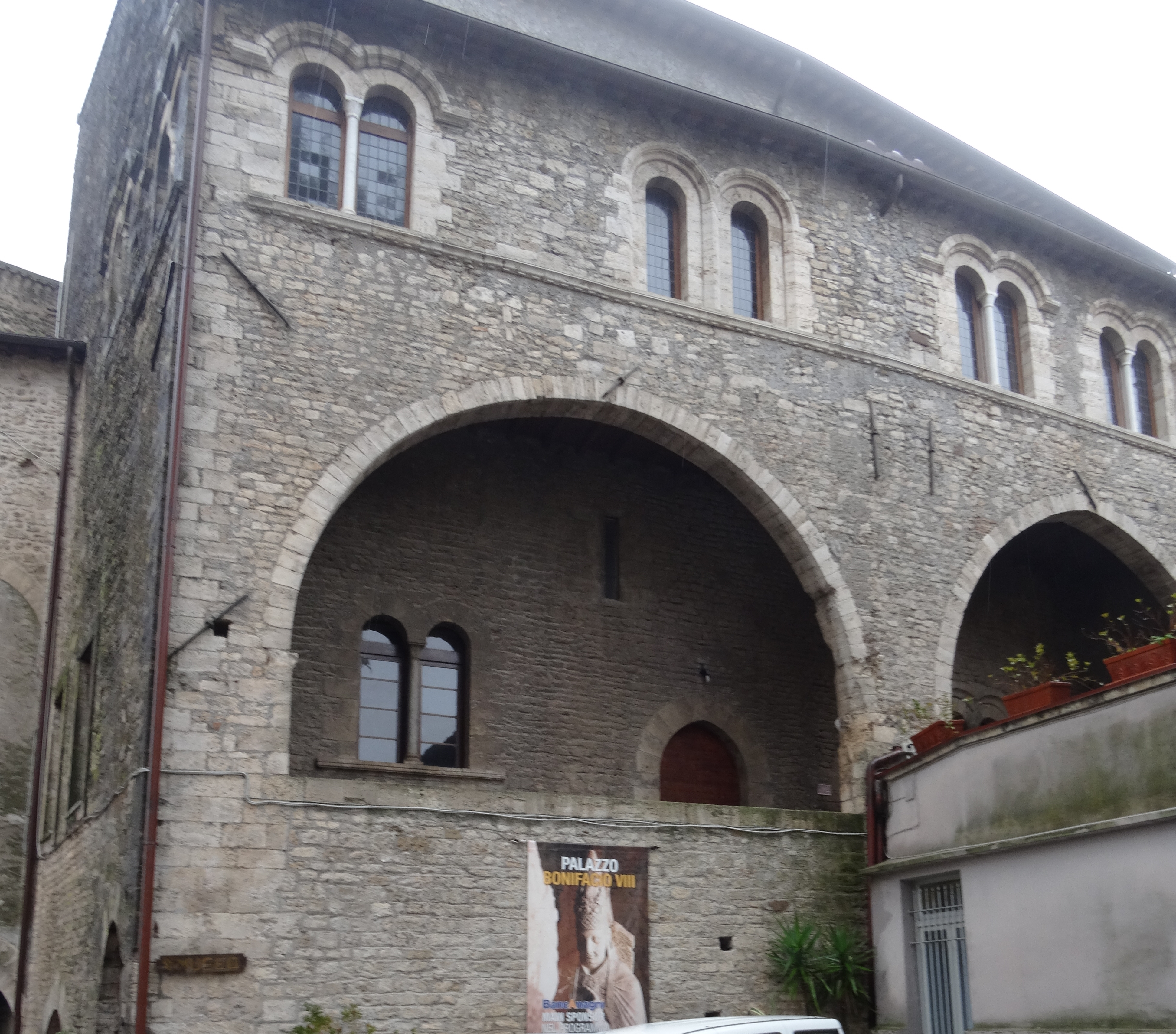 Palazzo dei papi,Anagni